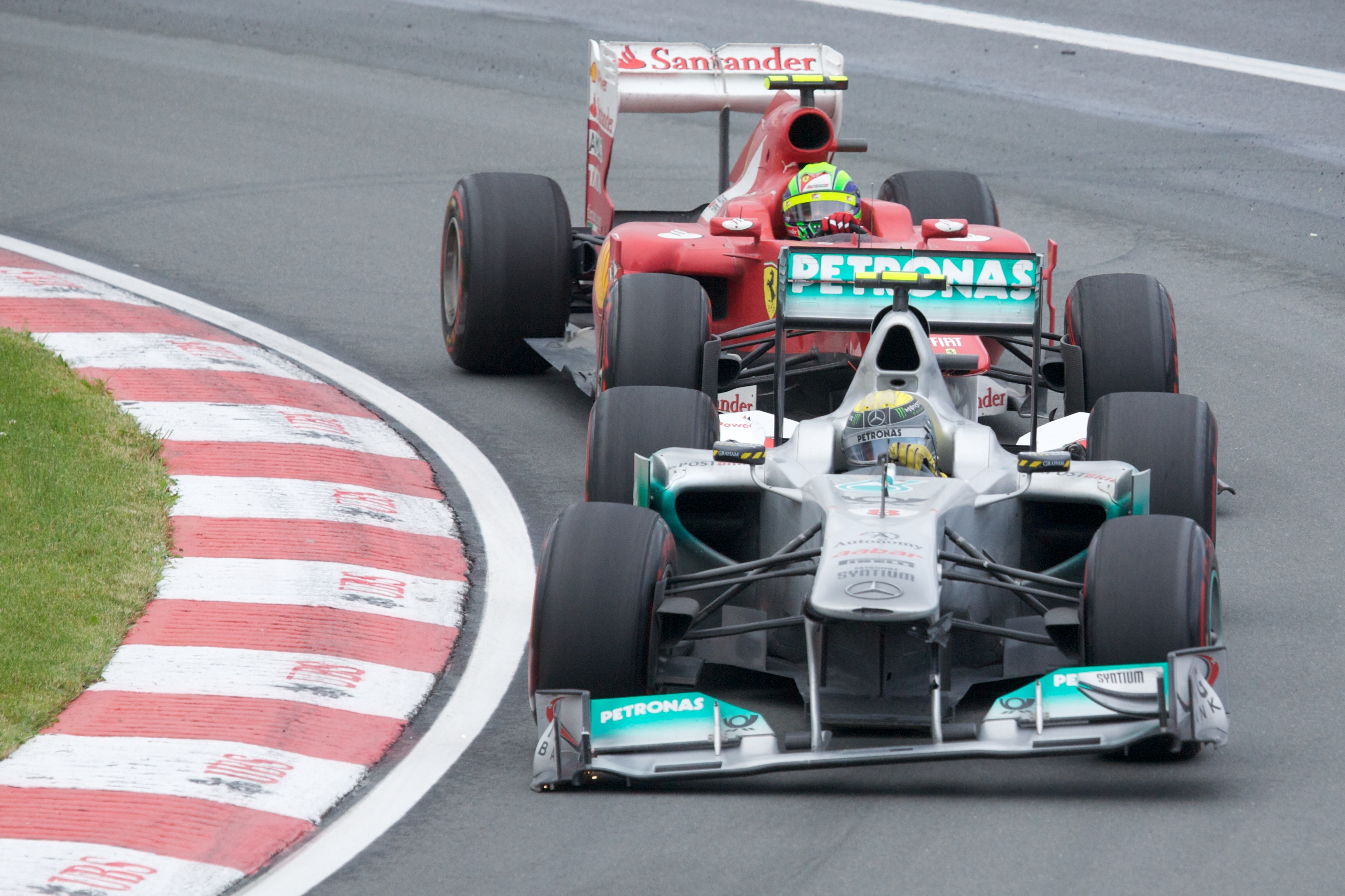 2011 Canadian Grand Prix